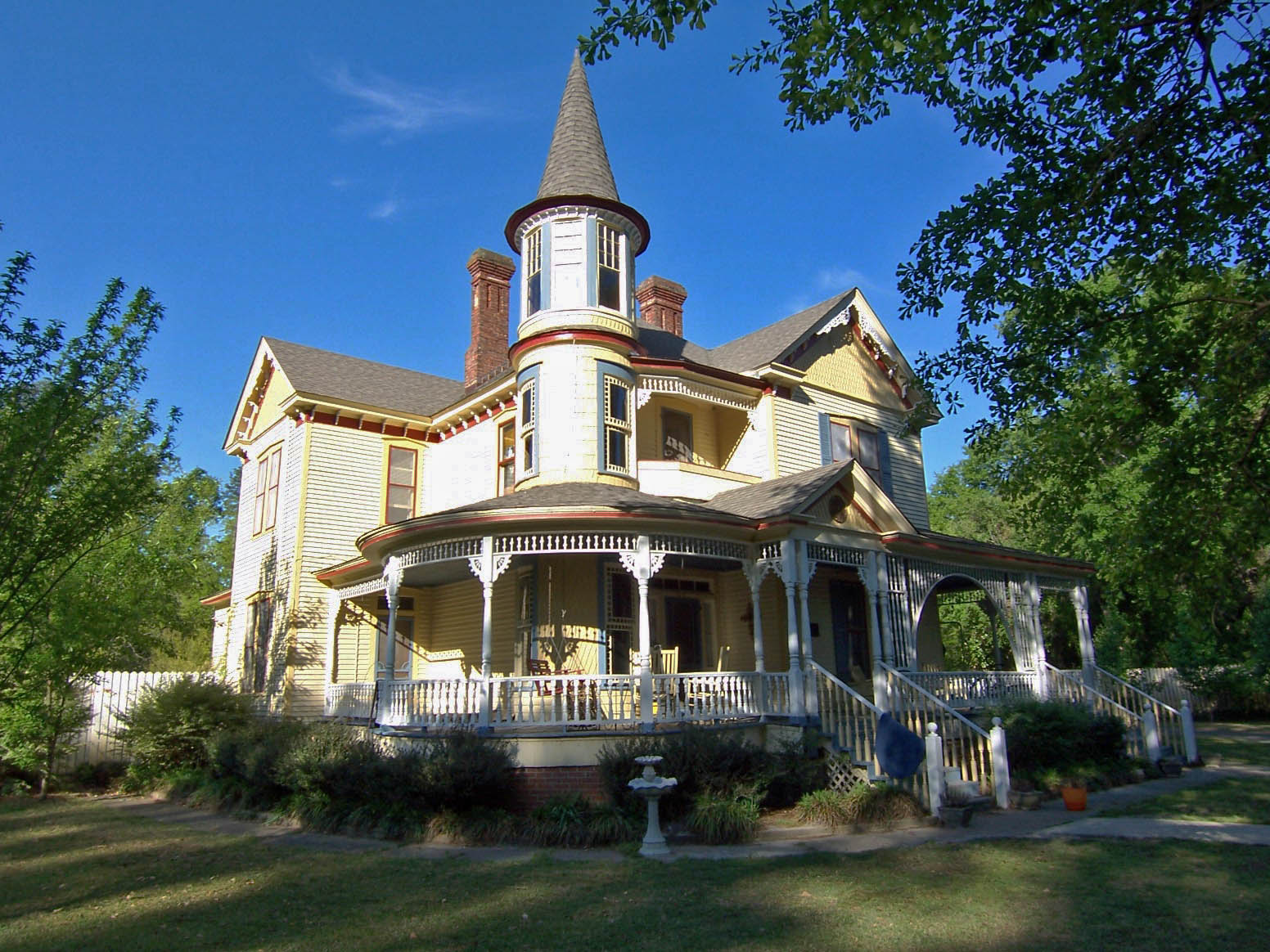 Exterior of the Rawl-Couch House